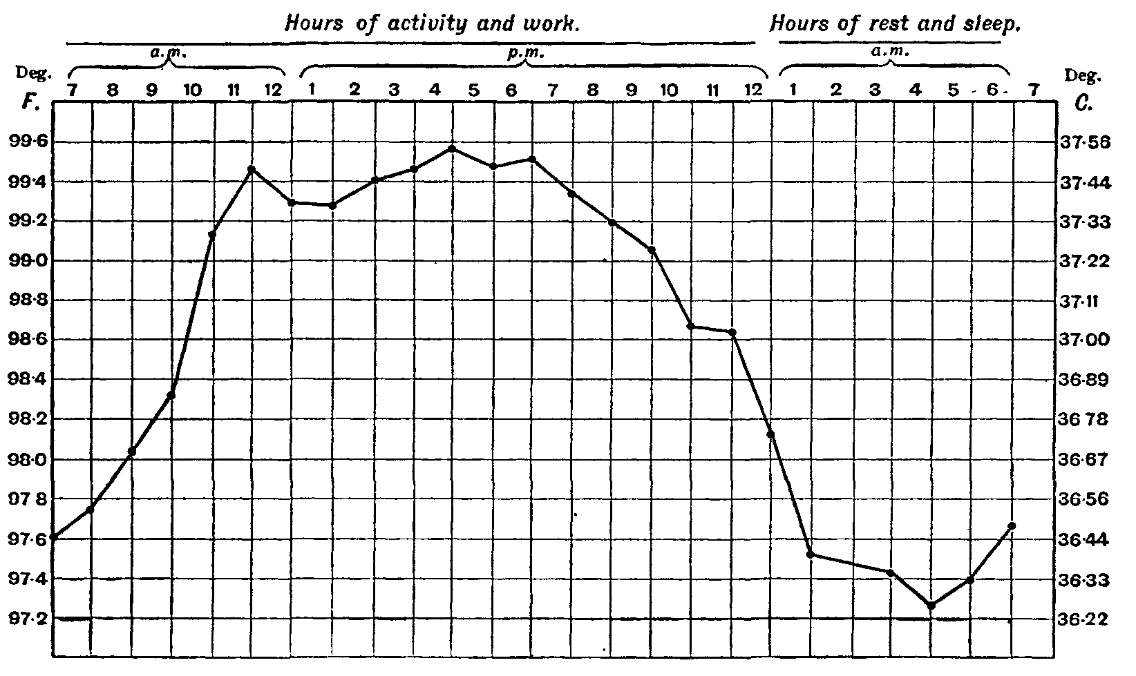 Chart showing diurnal variation in body temperature, ranging from about 37.5° C. from 10 A.M. to 6 P.M., and falling to about 36.3° C. from 2 A.M to 6 A.M.